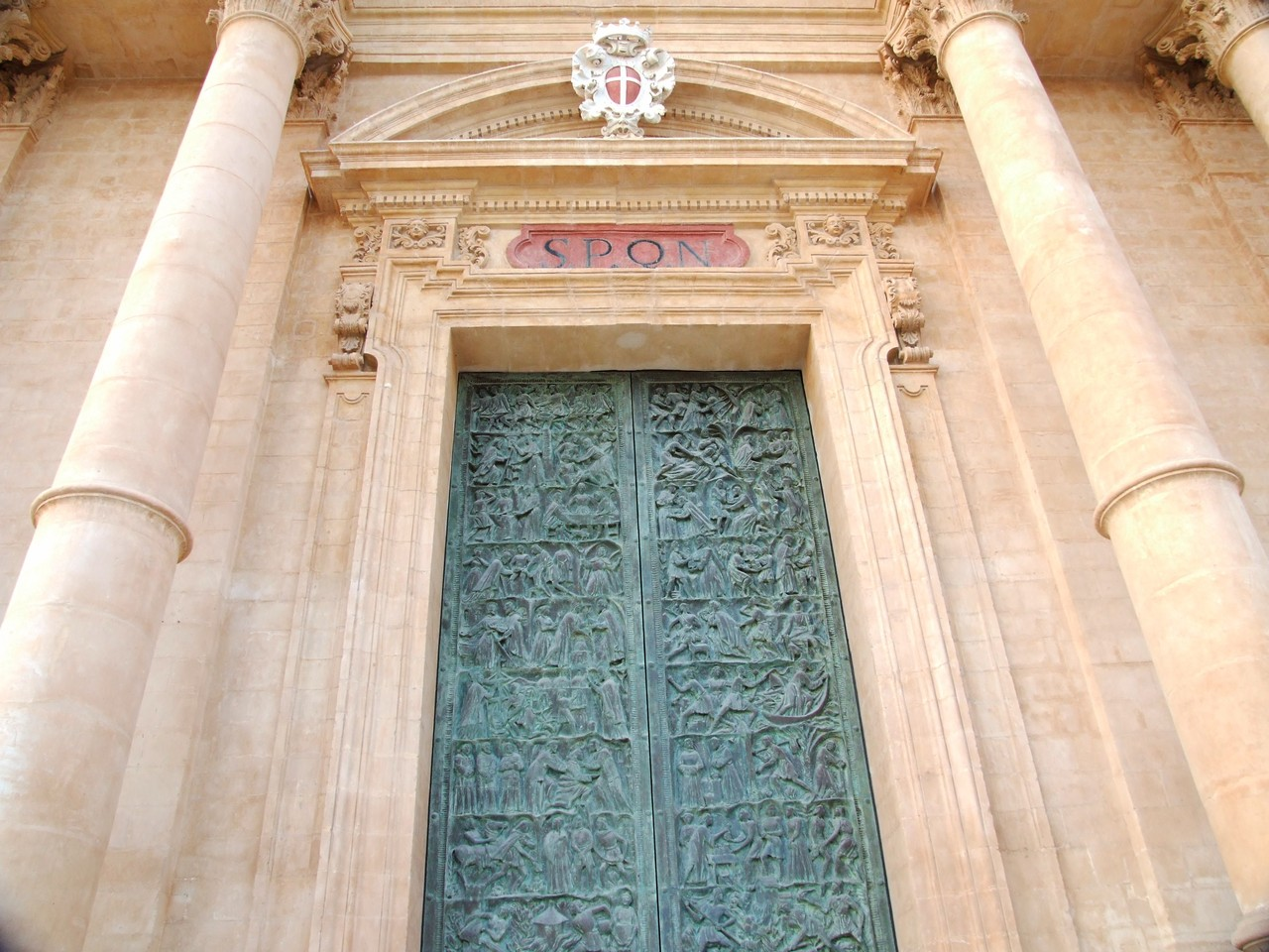 Noto, Sicily